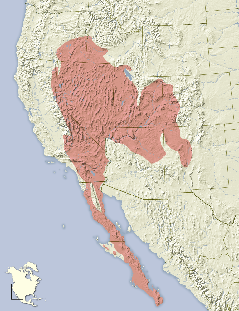 Distribution map of White-tailed antelope squirrel